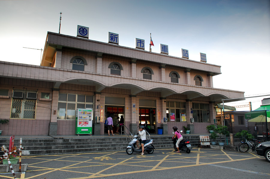 LinFongYing Station is a local train station of Taiwan's Western main rail line. It's the main station of SinShih Township, TaiNan County.